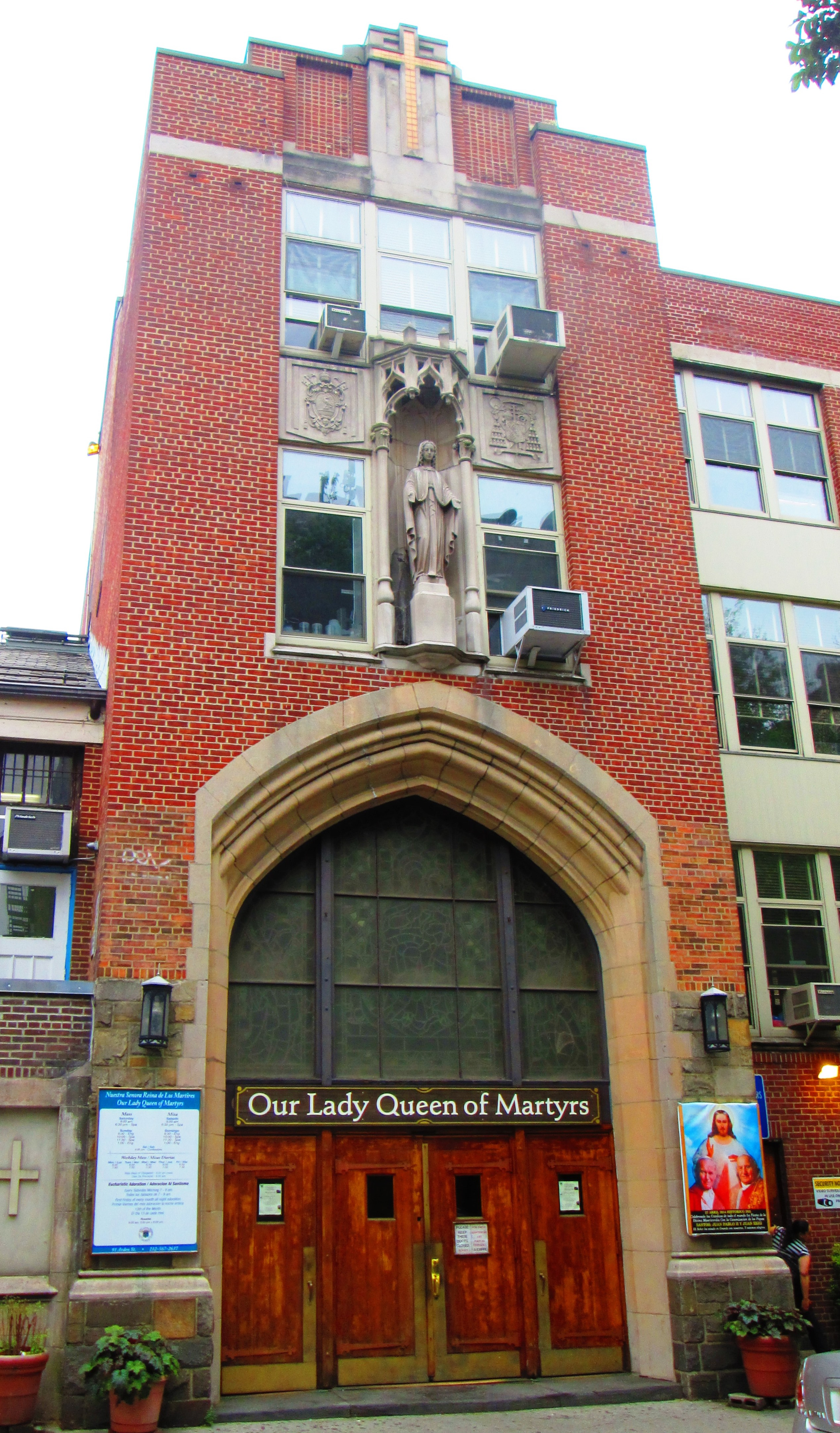 Our Lady Queen of Martyrs Roman Catholic Church, located at 81 Arden Street at Dongan Place, between Broadway and Sherman Avenue in the Washington Heights neighborhood of Manhattan, New York City, was built in 1949-50 as both a school and a church, which is in the basement under the school. It was designed by Gustave E. Steinback. The parish was founded in 1927. (Sources: "Historical information" and [1])